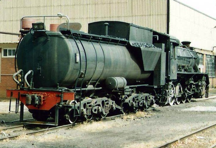 South African Railways Class S2 0-8-0 no. 3706, at Millsite shortly before she was moved to the museum in George